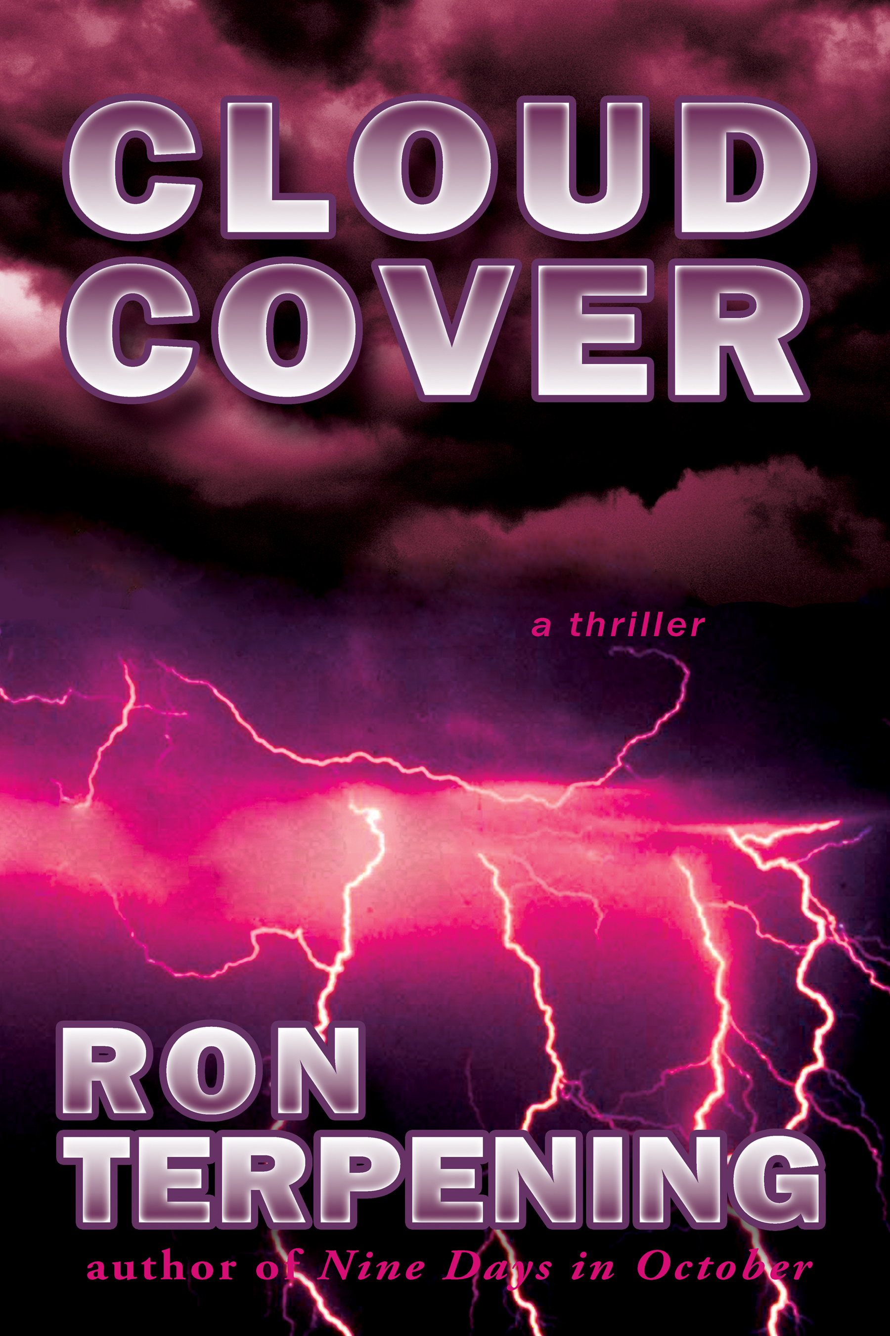 Front cover of a thriller, Cloud Cover, by Ron Terpening